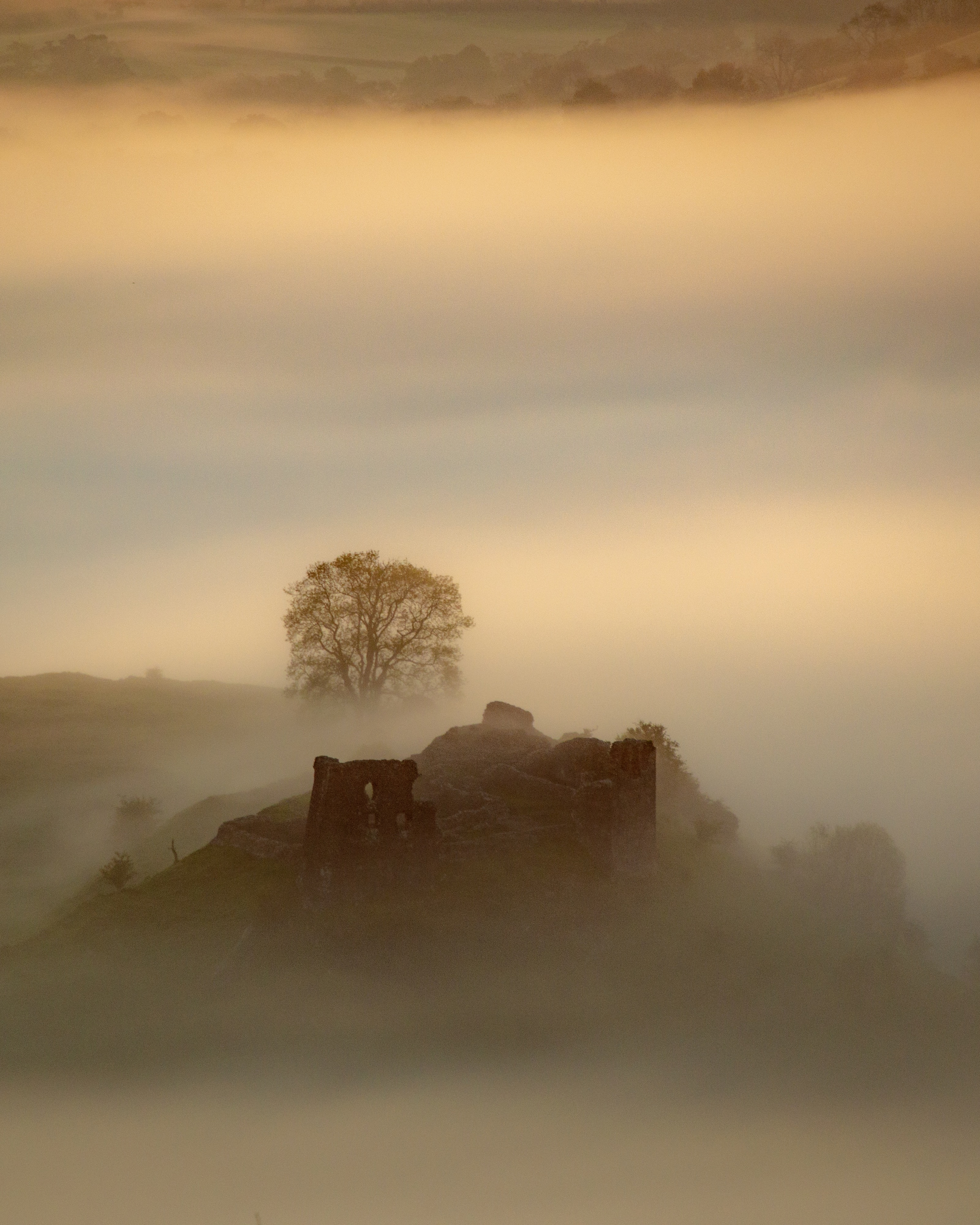 Dryslwyn Castle in mist